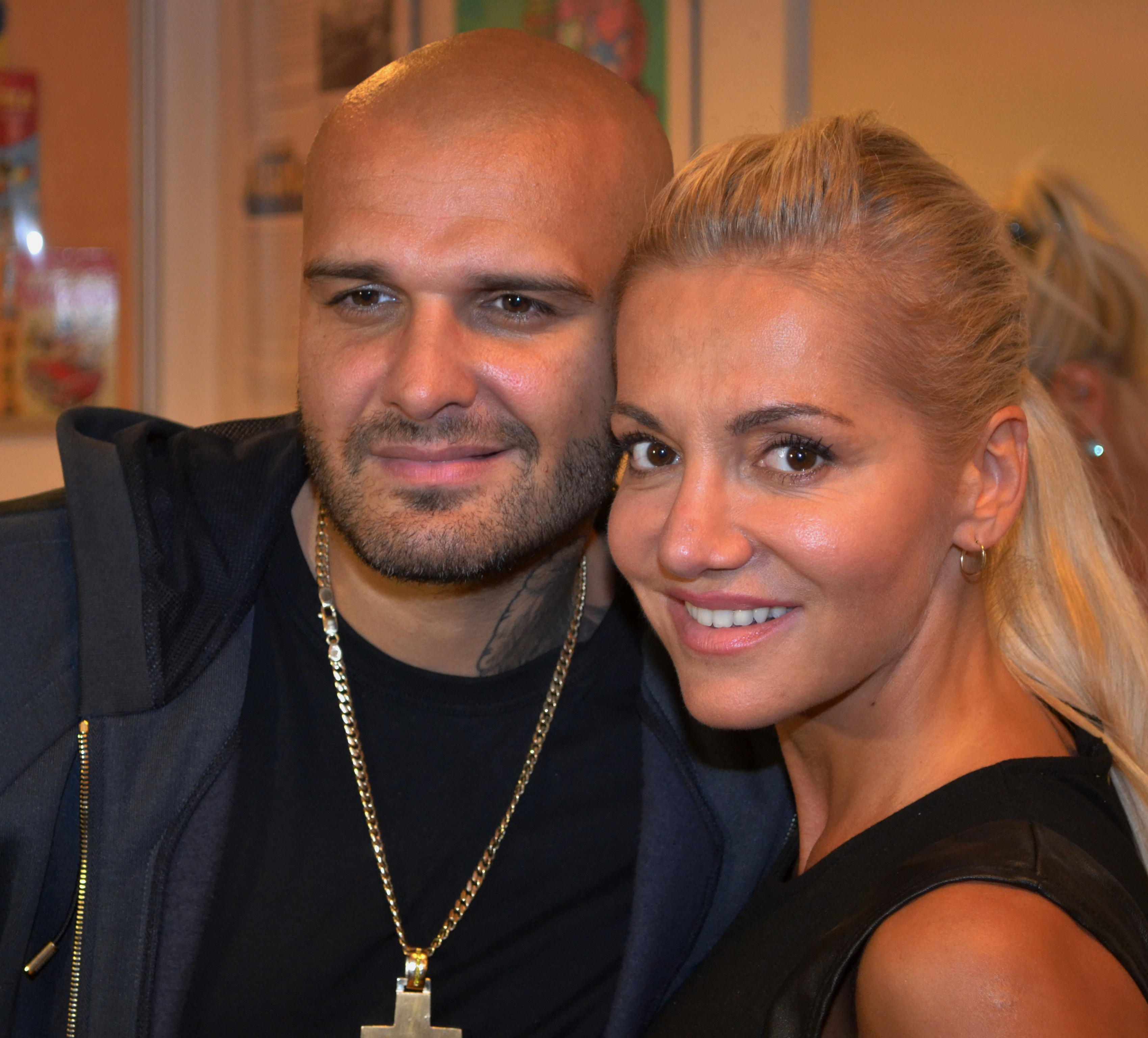 Patrik Vrbovský (stage name Rytmus), Slovak rapper and Dara Rolins, Slovak vocalist